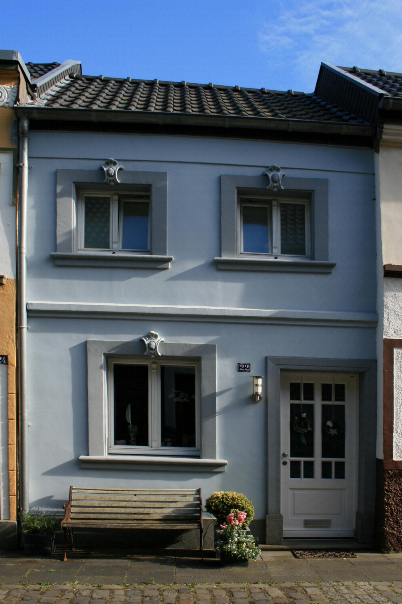 Cultural heritage monument No. St 019 in Mönchengladbach